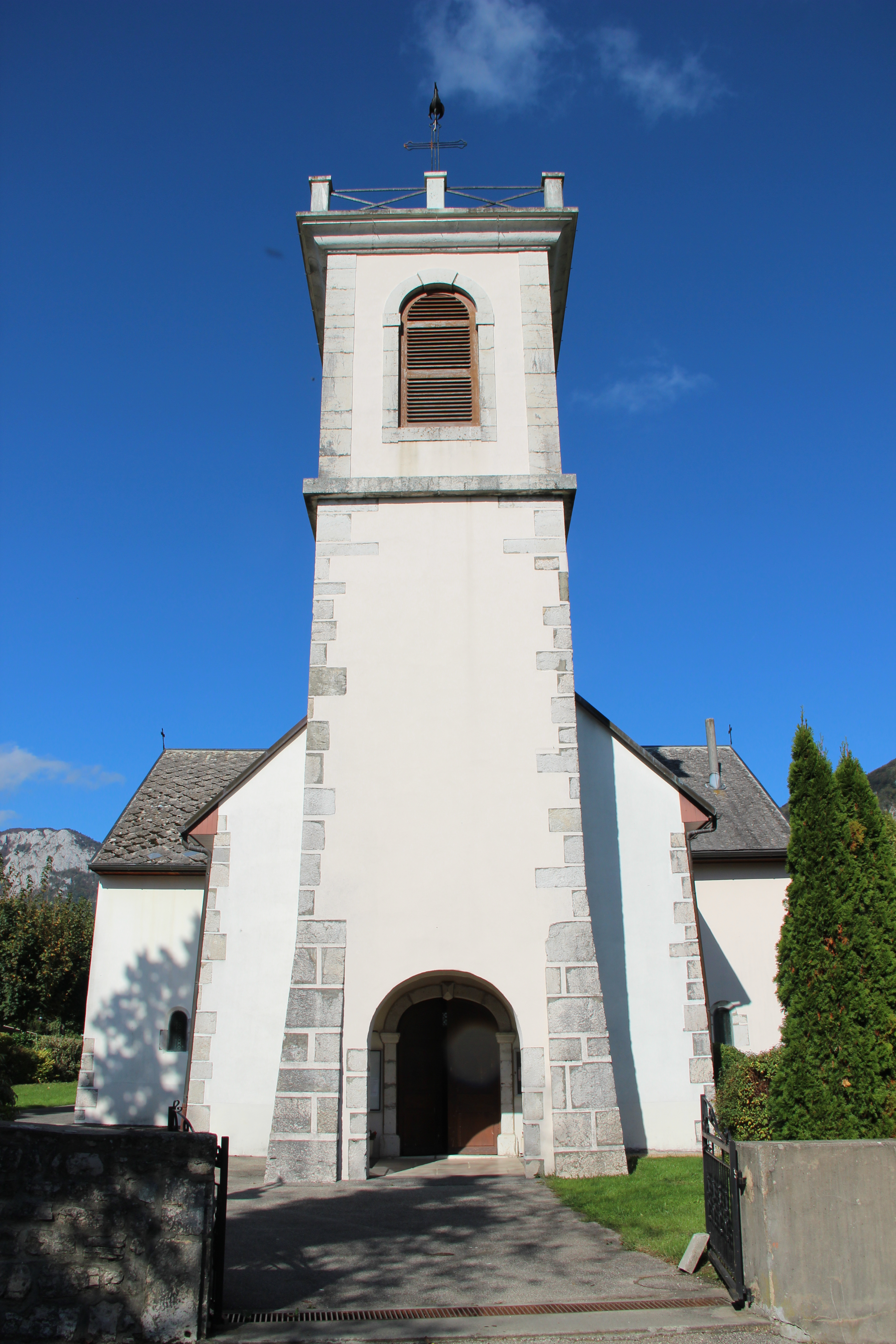 Church of Léaz